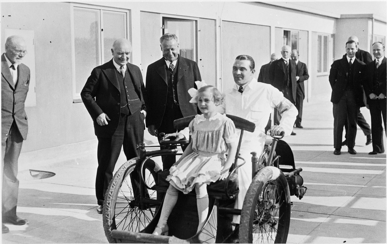 C13863. Museum of Technology, Stockholm, 18 May 1936. Demonstration of older vehicles on the rooftop of the museum's inauguration. The photo shows Prime Minister Per Albin Hansson and Trade Fritiof Ekman.